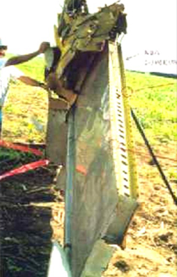 Photo of the left side of the horizontal stabilizer